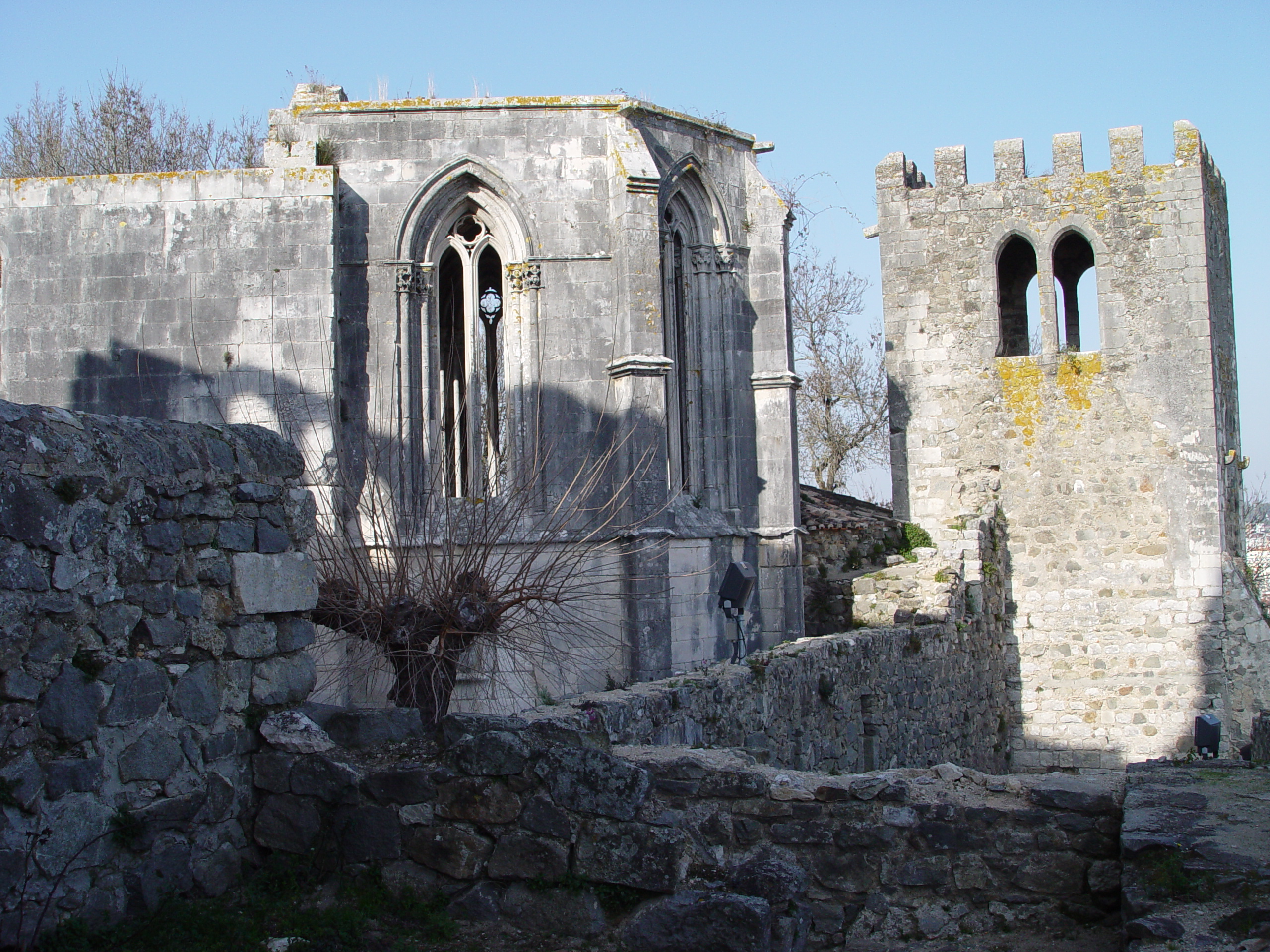 Author: Orium